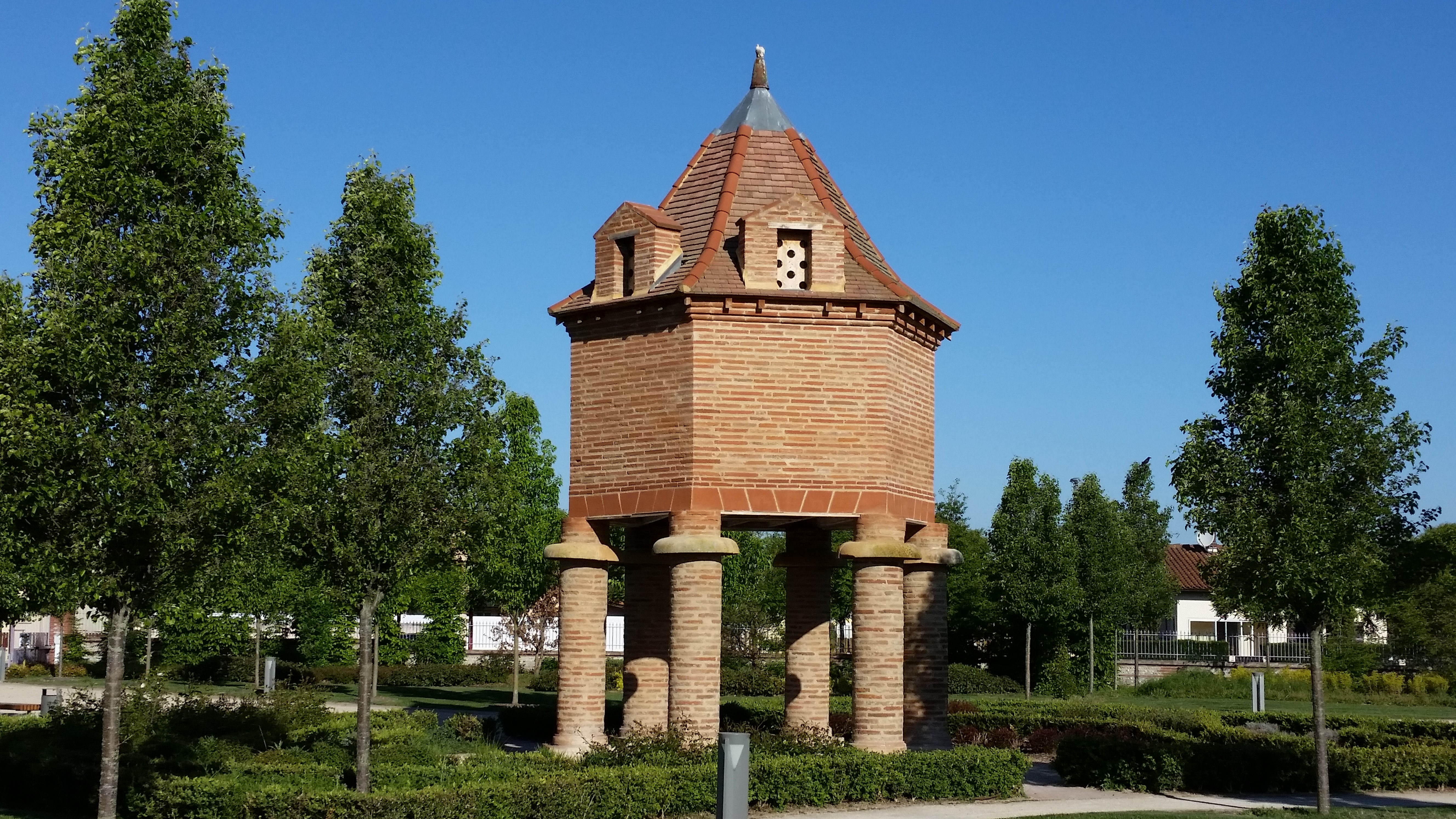 Frouzins city pigeon loft in the Saint-Germier park, built in 1670